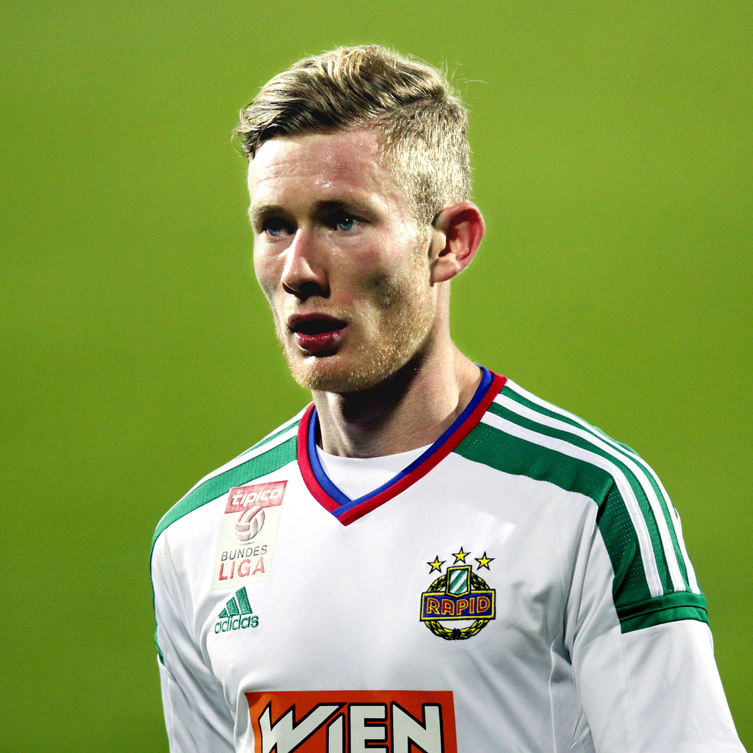 Match of the Austrian Football Bundesliga – SV Mattersburg (green shirts) vs. SK Rapid Wien (white shirts) 1-6 (0-5) at 2015-11-21 in Pappelstadion, Mattersburg – The photo shows Florian Kainz.